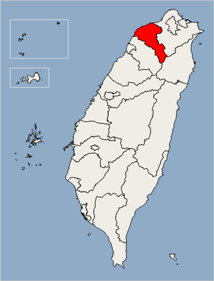 Location of Taoyuan County in Taiwan